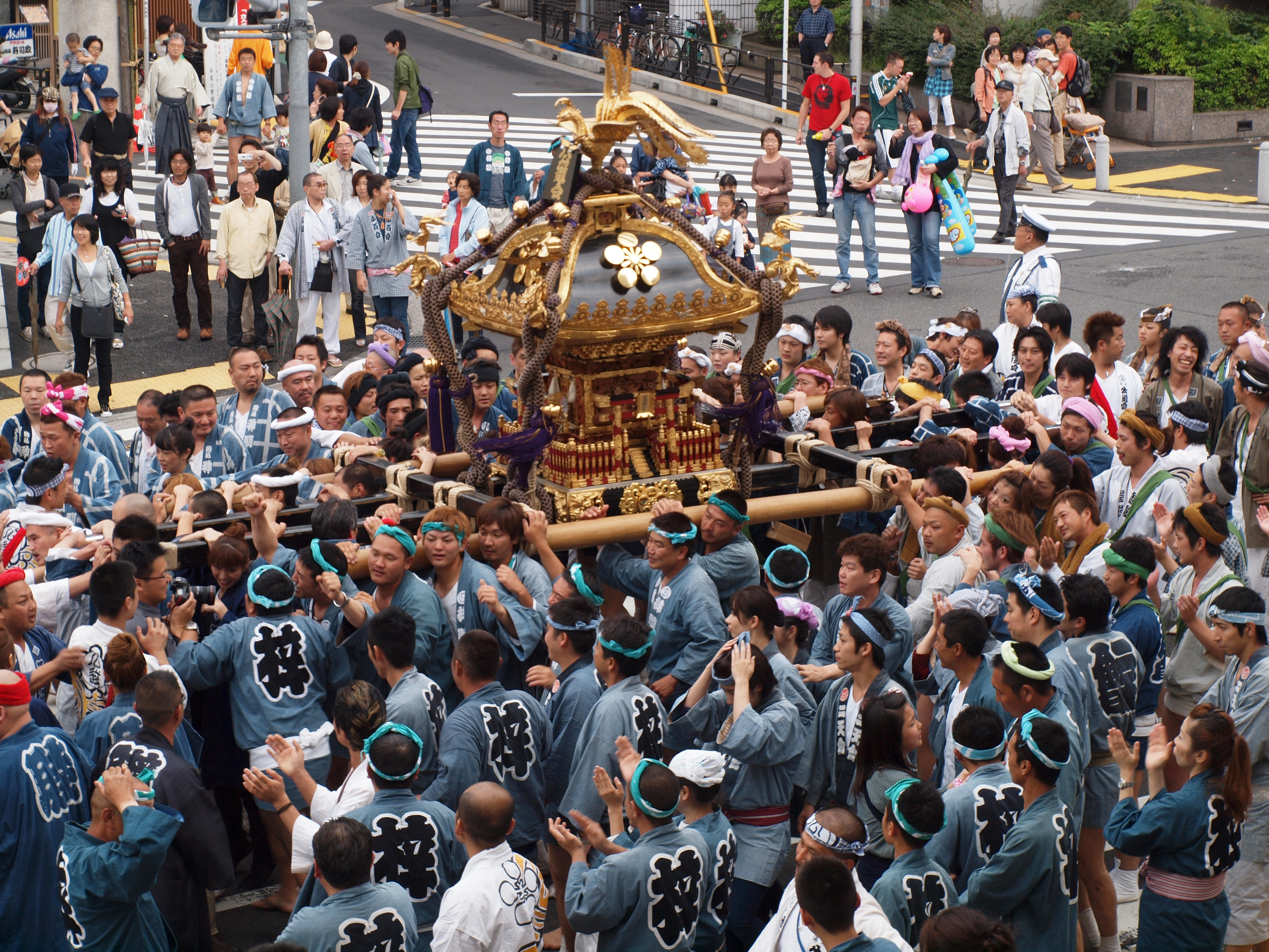 Reitaisai (Annual Festival) of Yushima-temmangū.